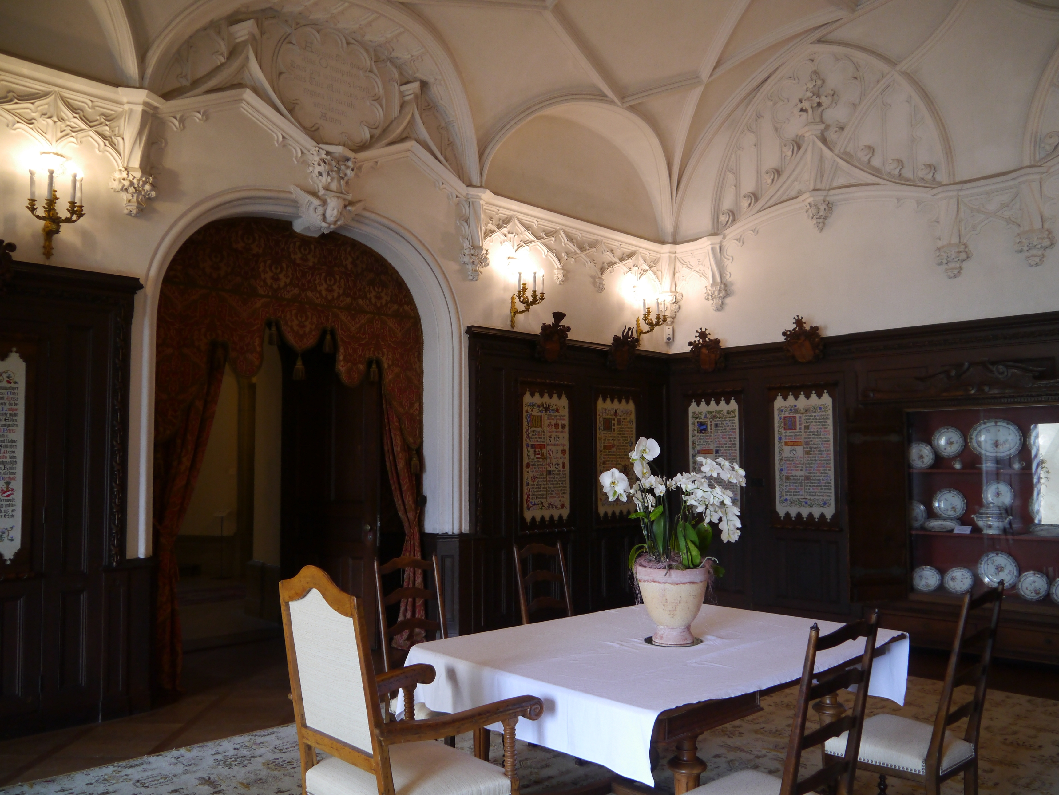 Dining hall of Oberhofen Castle, Oberhofen, Canton of Bern, Switzerland